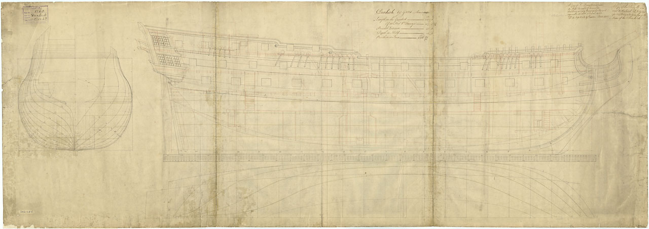 Dunkirk (1754); Achilles (1757); America (1757) Scale: 1:48. Plan showing the body plan, sheer lines with inboard detail, and longitudinal half-breadth for Dunkirk (1754), a 60-gun Fourth Rate, two-decker. A copy of the plan was sent to merchant yards to build Achilles (1757) and America (1757), also 60-gun Fourth Rate, two-deckers. DUNKIRK 1754